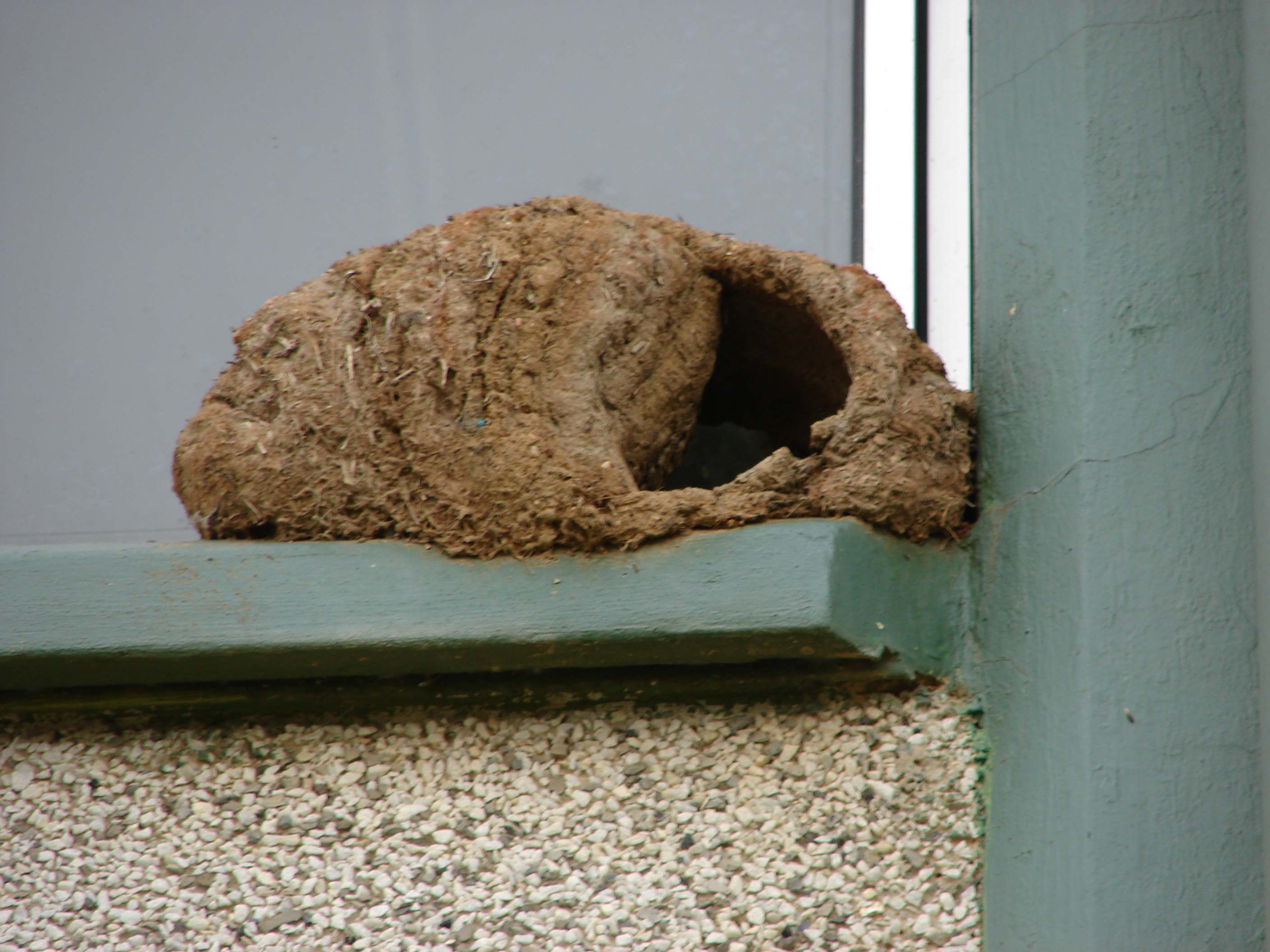 Rufous Hornero (Furnarius rufus) nests at a window of the FIERGS building. Porto Alegre, Brazil